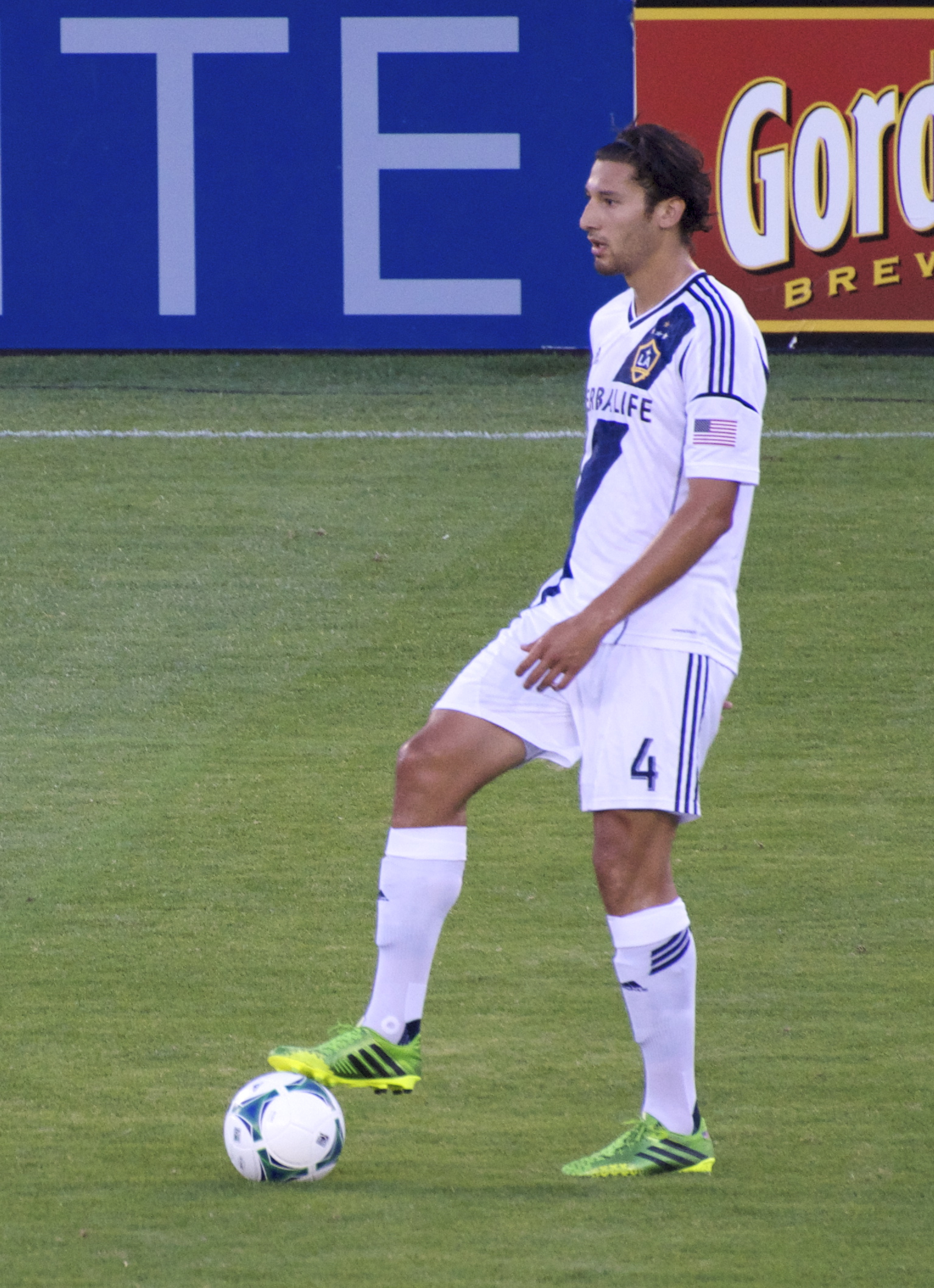 Omar Gonzalez, Stanford Stadium, LA Galaxy vs SJ Earthquakes, Saturday 2013-06-29